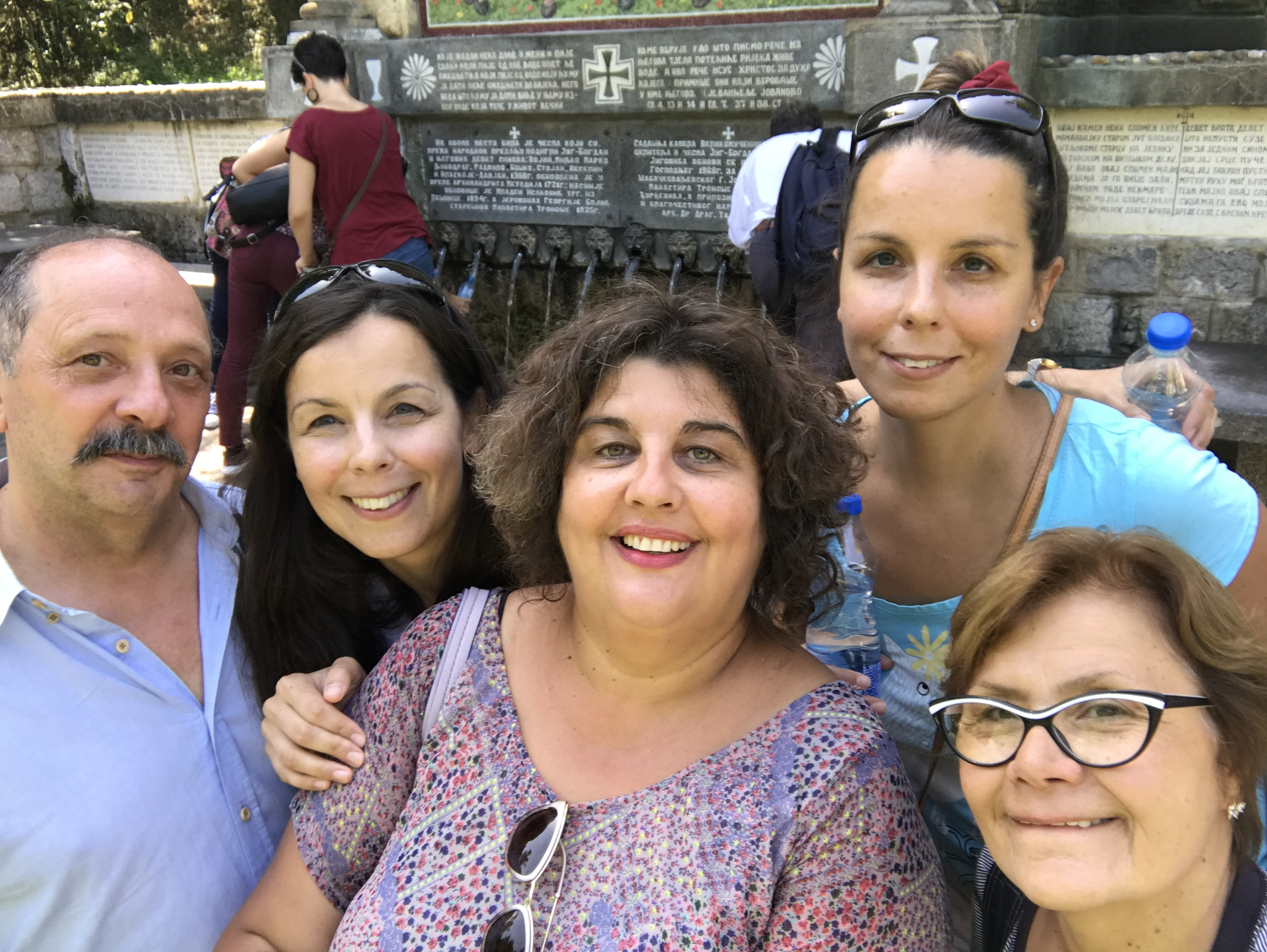 26 august 2017, Tronoșa, Serbia. Cu Piotr Fast, Natalia Bernițkaia, Karia Kitanova